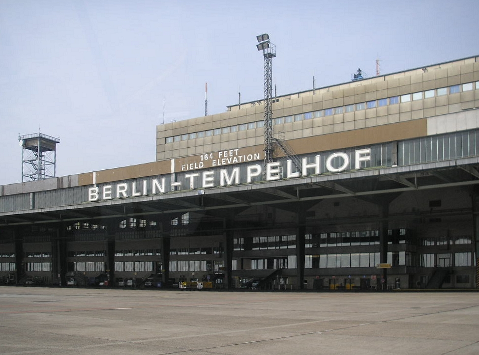 Image of Tempelhof Airport